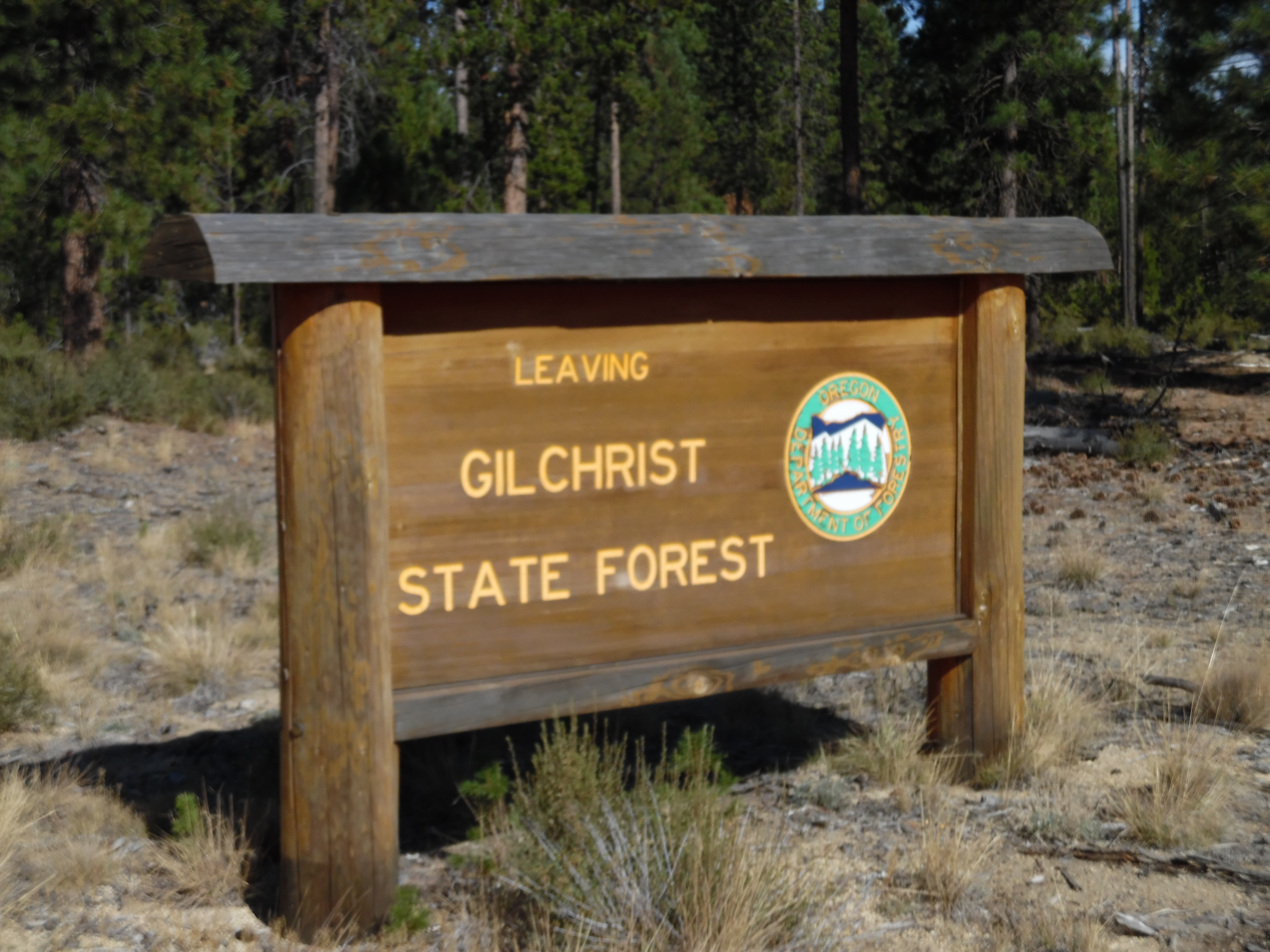 Gilchrist State Forest sign in central Oregon,2017